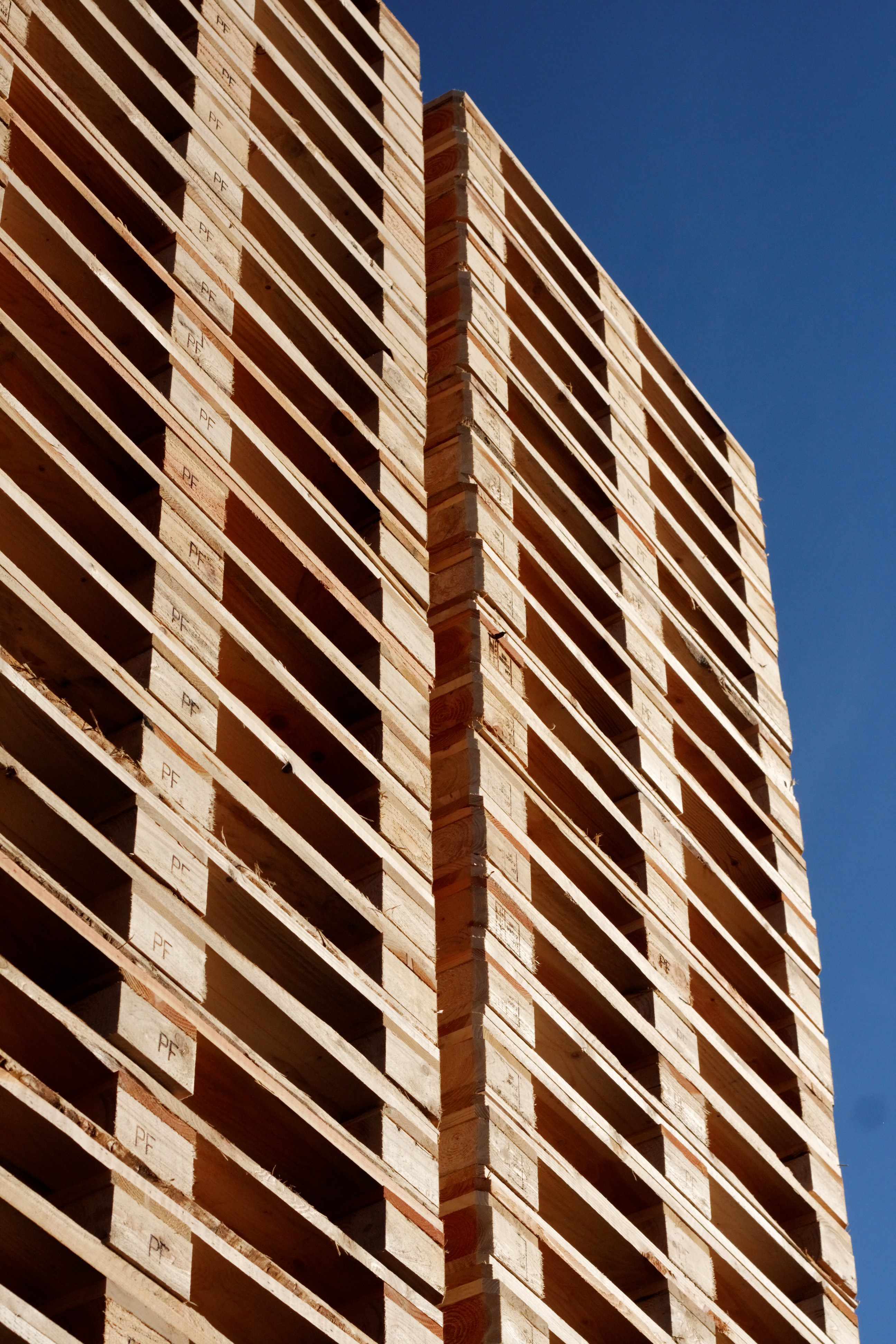 Palettes Euro